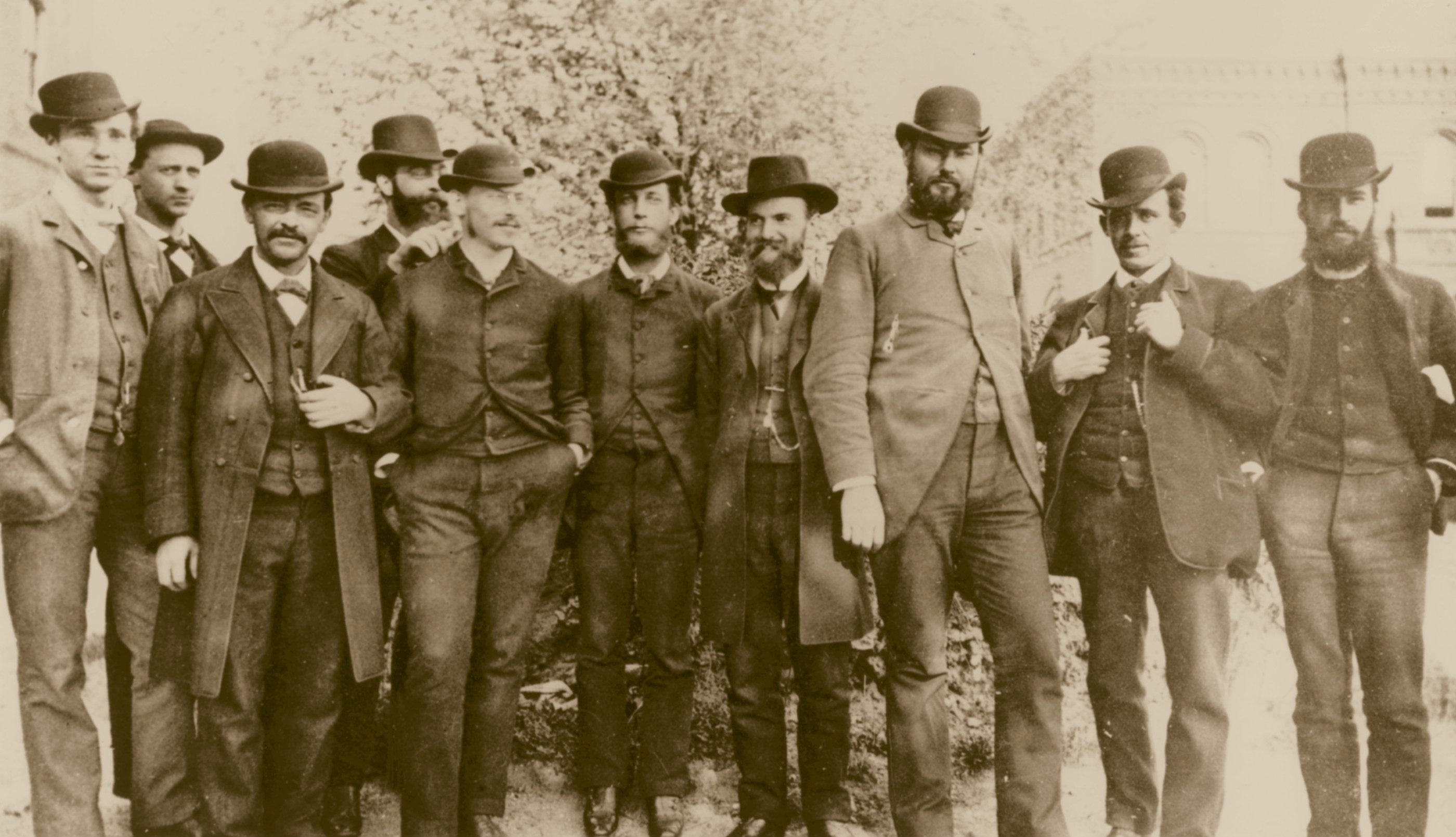 Harvey Wiley, Chief Chemist of the Department of Agriculture’s Division of Chemistry (third from the right) with his staff, not long after he joined the division in 1883. Wiley’s scientific expertise and political skills were a key to passage of the 1906 Food and Drugs Act and the creation of FDA.